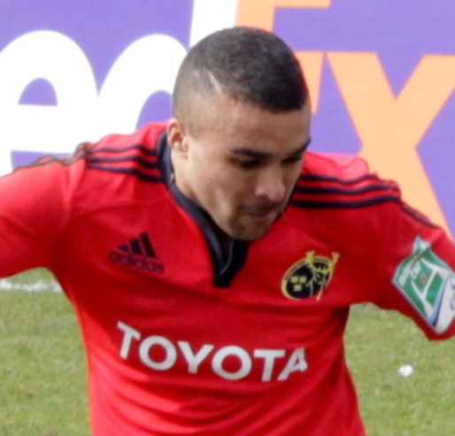 Munster's Simon Zebo playing against Harlequins in the Heineken Cup.